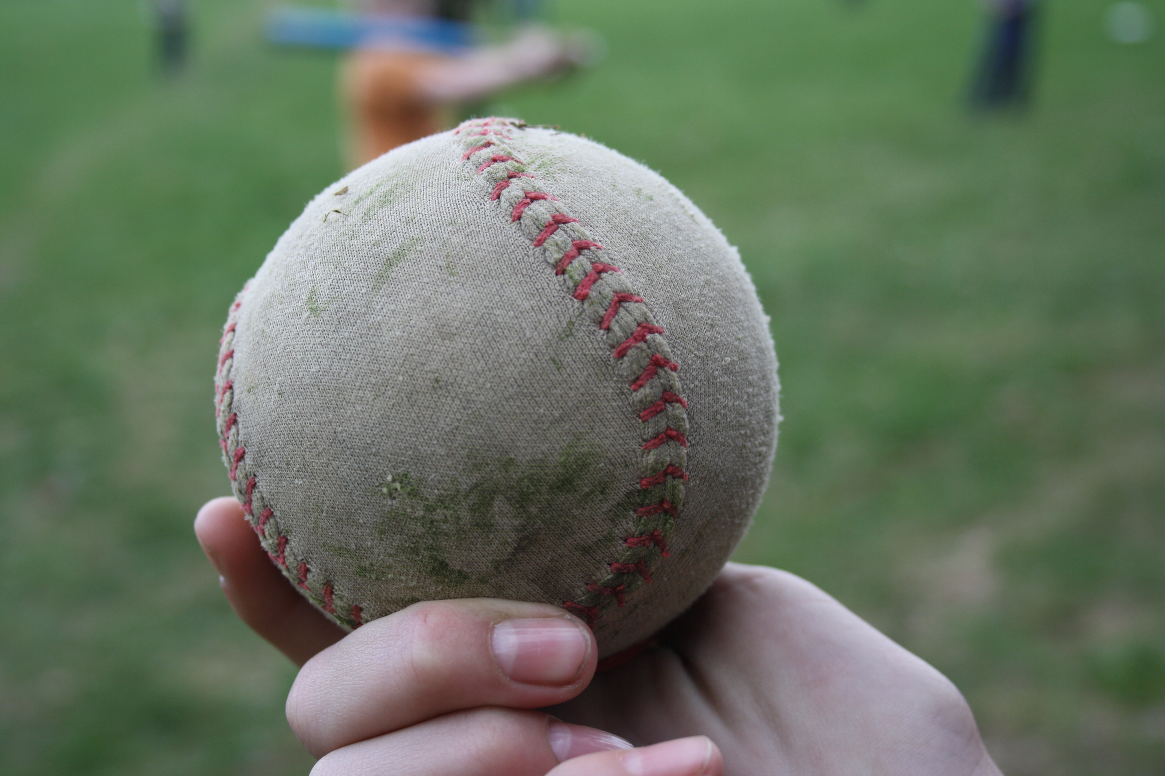 Used softball ball in Třebíč, Czech Republic.